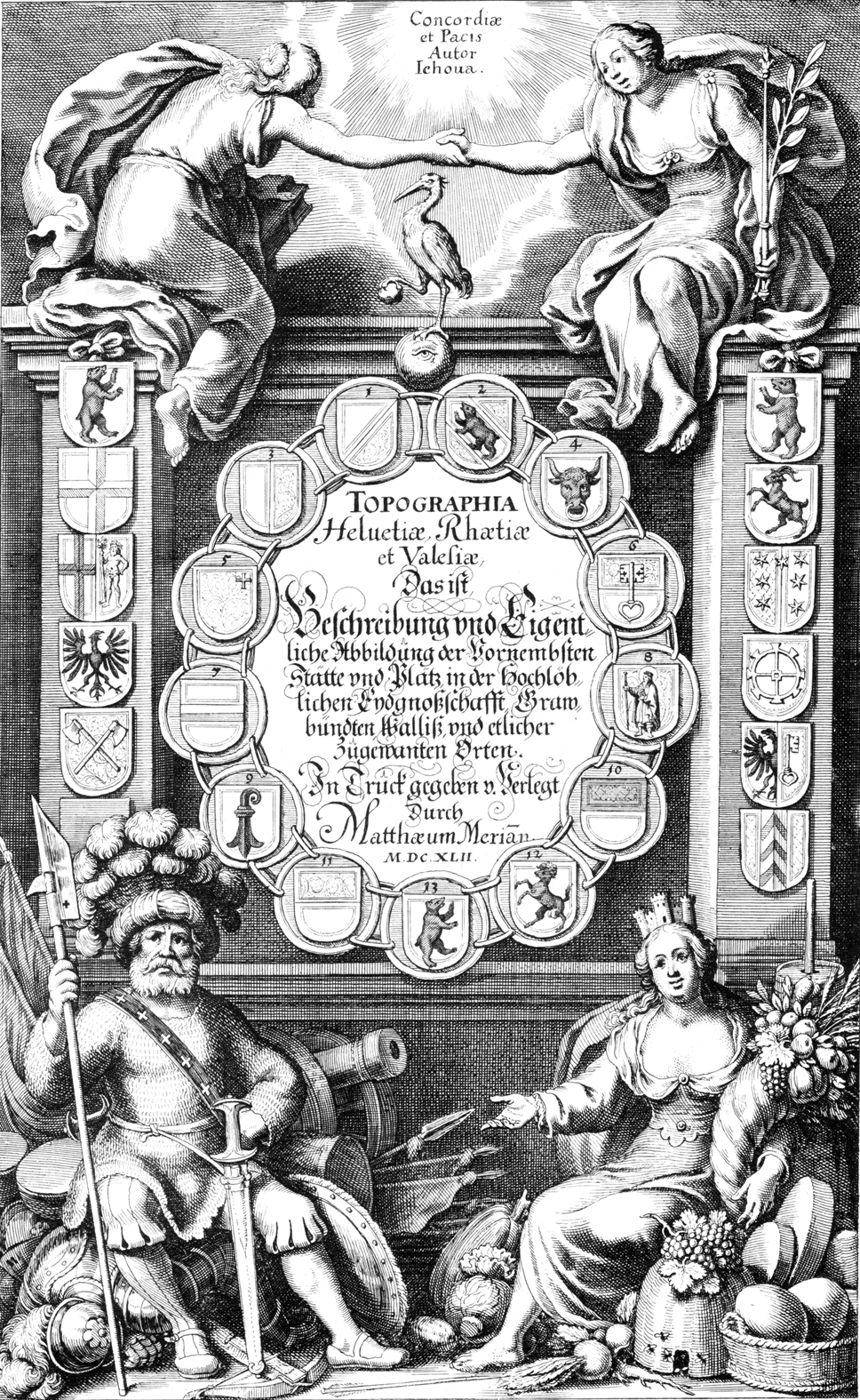 Title of the book "Topographia Helvetiae" by Matthäus Merian. The coat of arms of the XIII members of the Old Swiss Confederacy forming a chain around the title: 1) Zurich; 2) Berne; 3) Lucerne; 4) Uri; 5) Schwyz; 6) Unterwalden; 7) Zug; 8) Glarus; 9) Bale; 10) Fribourg; 11) Solothurn; 12) Schaffhausen; 13) Appenzell. Left and right on the two pillars the coat of arms of the associated members of the Confederacy. On the left side: Prince-abbacy of St. Gall, Grey League, League of the Ten Jurisdictions, Rottweil, Biel. On the right side: City of St. Gall, League of God's House, Republic of the Seven Zenden of Wallis, Moulhuse, Geneva, Principality of Neuchâtel. At the bottom two allegories of the military strenght of the Swiss Confederacy and the wealth of its cities